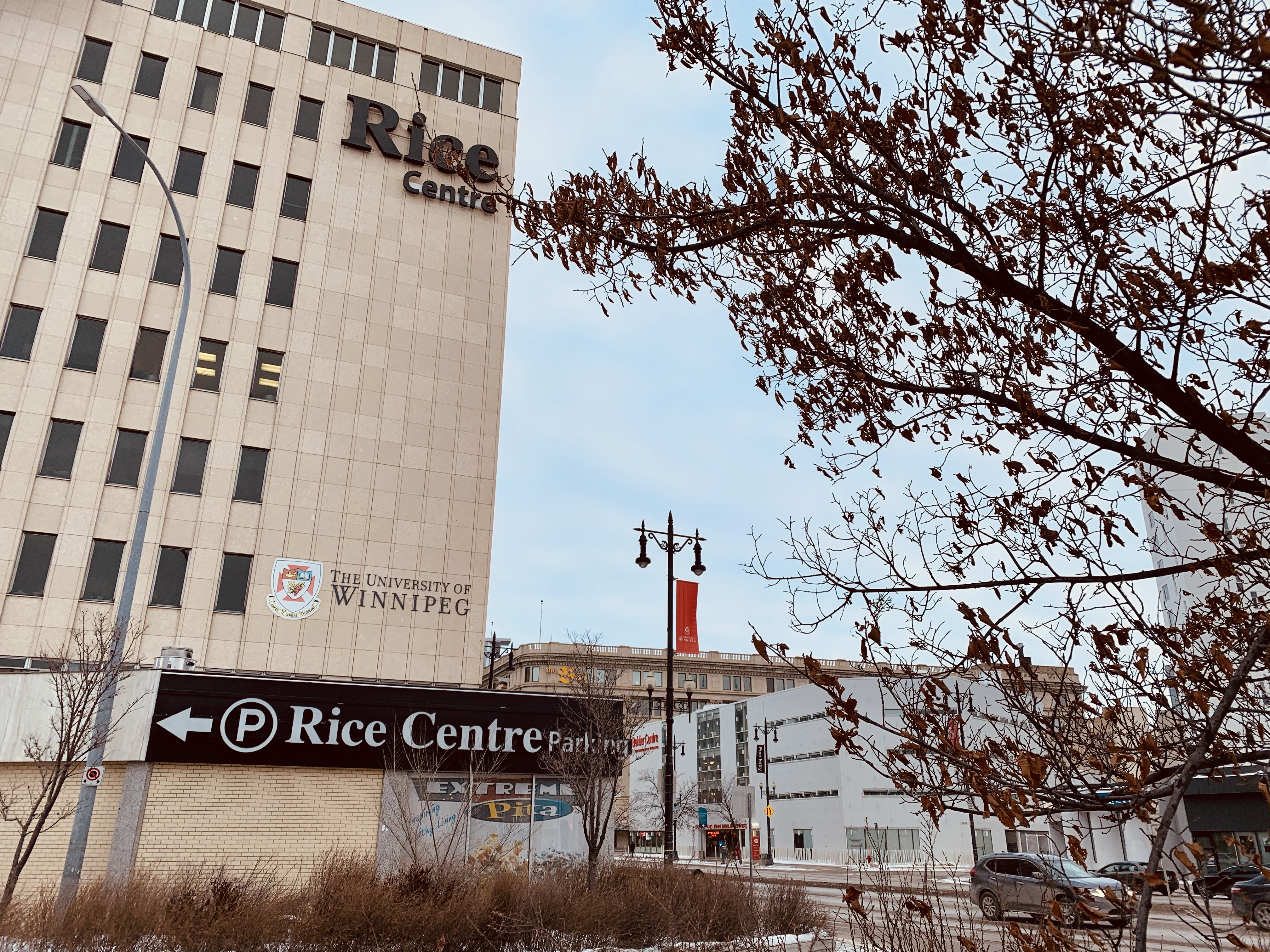 Administration offices of the University, PACE Classrooms and the Student Services Centre. It is connected to the Balmoral Transit Terminal, The AnX, a major university parkade and the Holiday Inn Hotel.